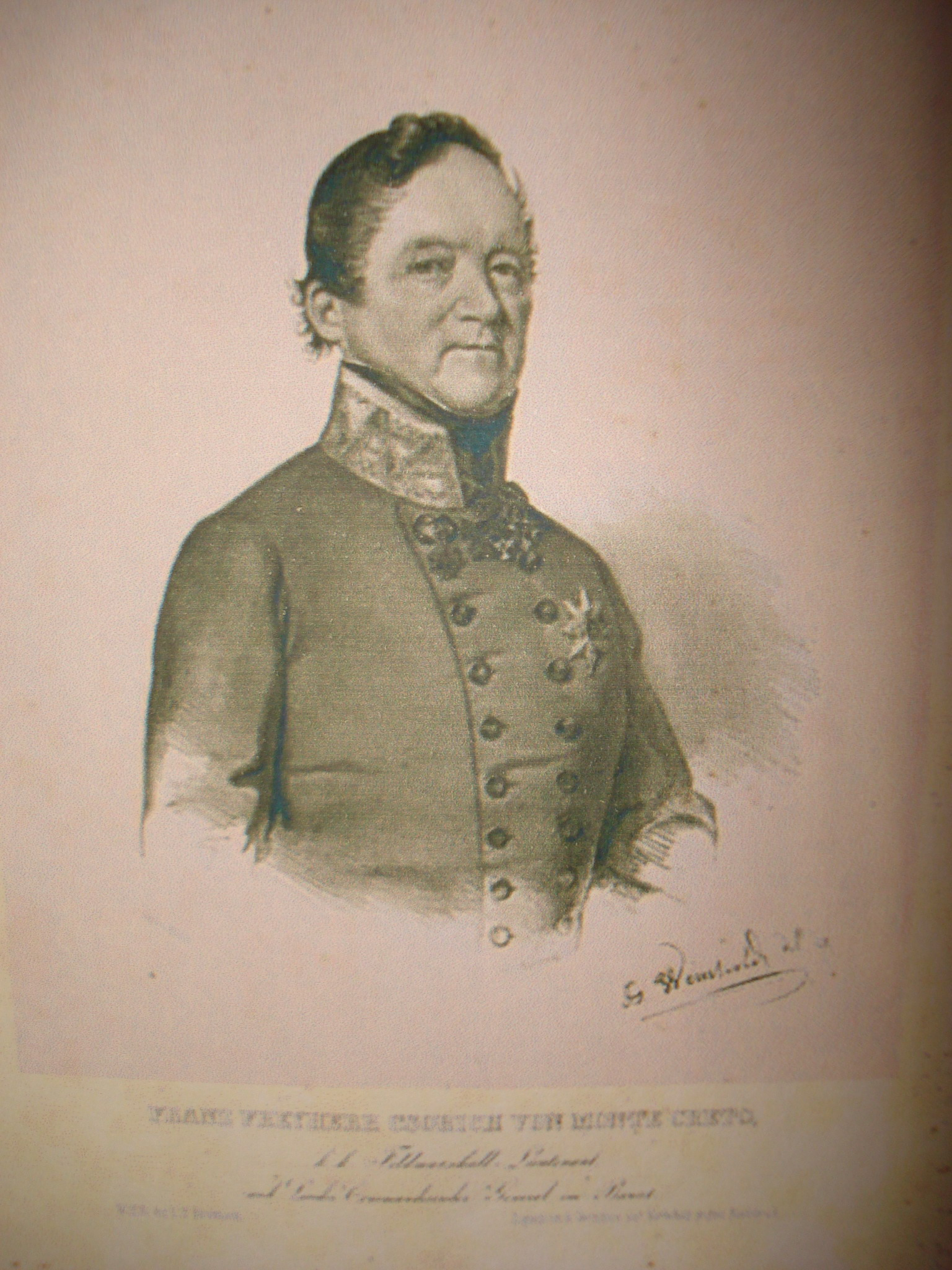 Baron Aleksandar Franjo Čorić /Alexander Francis Chorich/ (1772-1847), Croatian nobleman and general of the Habsburg Monarchy imperial armyHrvatski: Aleksandar Franjo barun Čorić (1772-1847), hrvatski plemić i general carske vojske Habsburške Monarhije